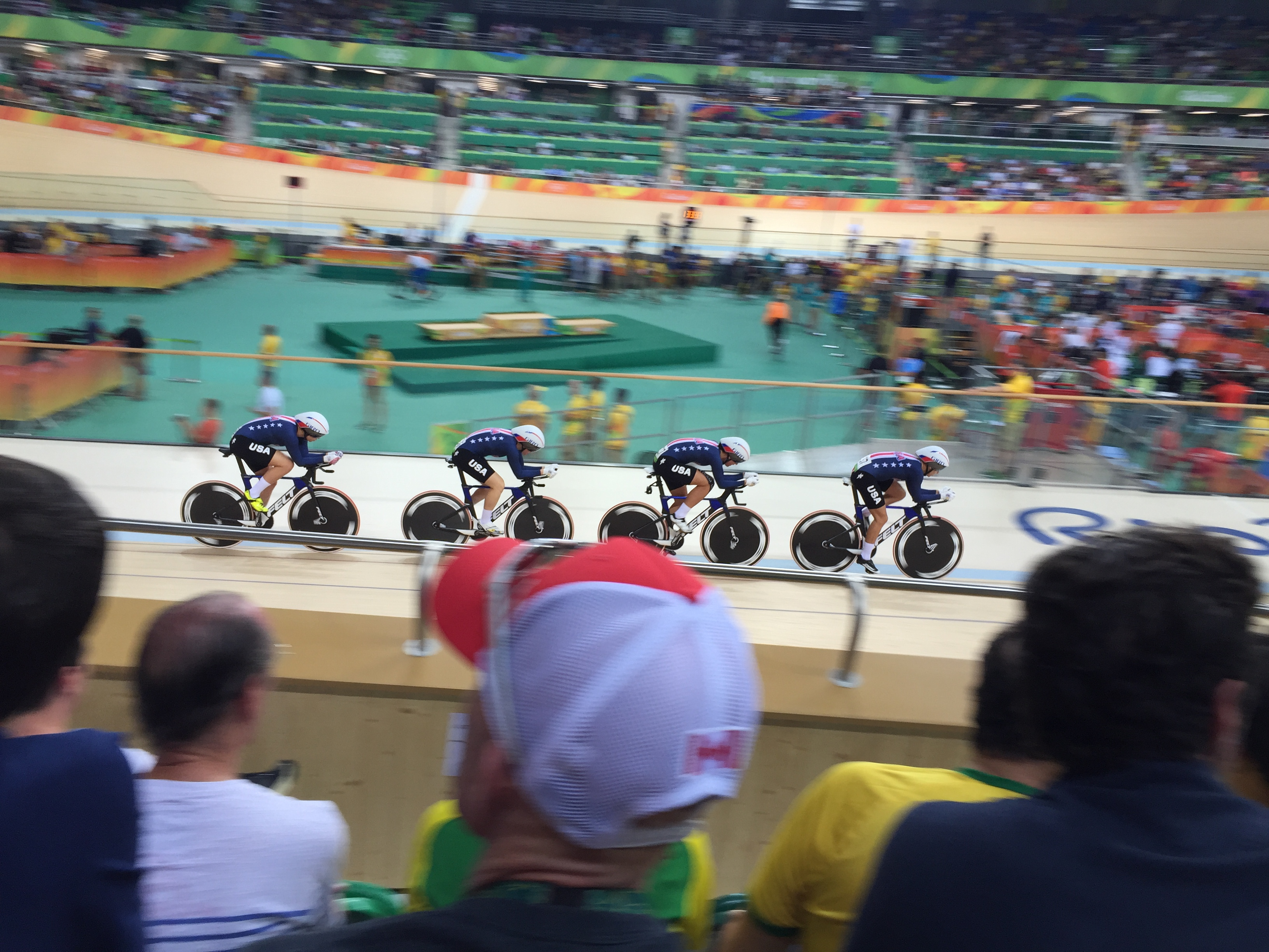 Rio 2016 Summer Olympics